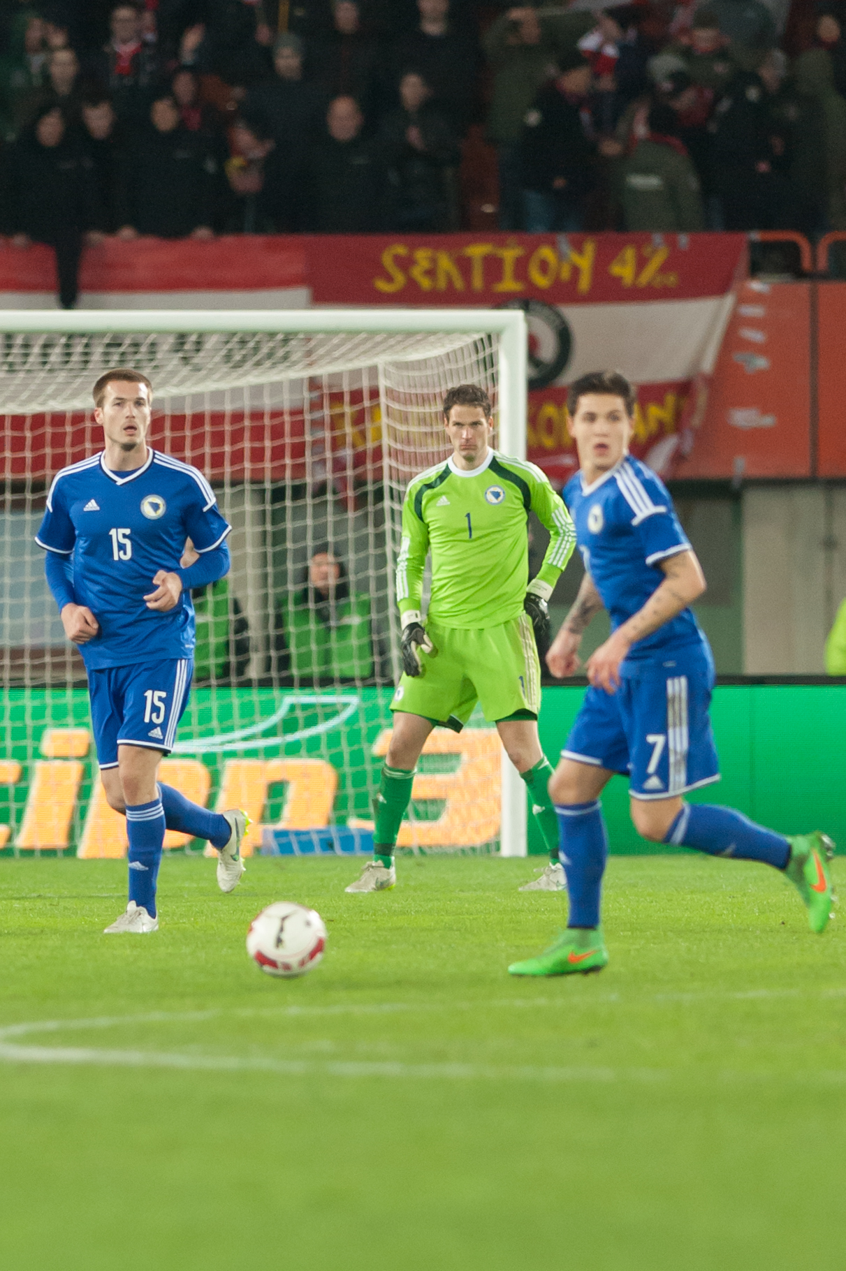 International friendly Austria vs. Bosnia and Herzegovina, 2015-03-31, Vienna